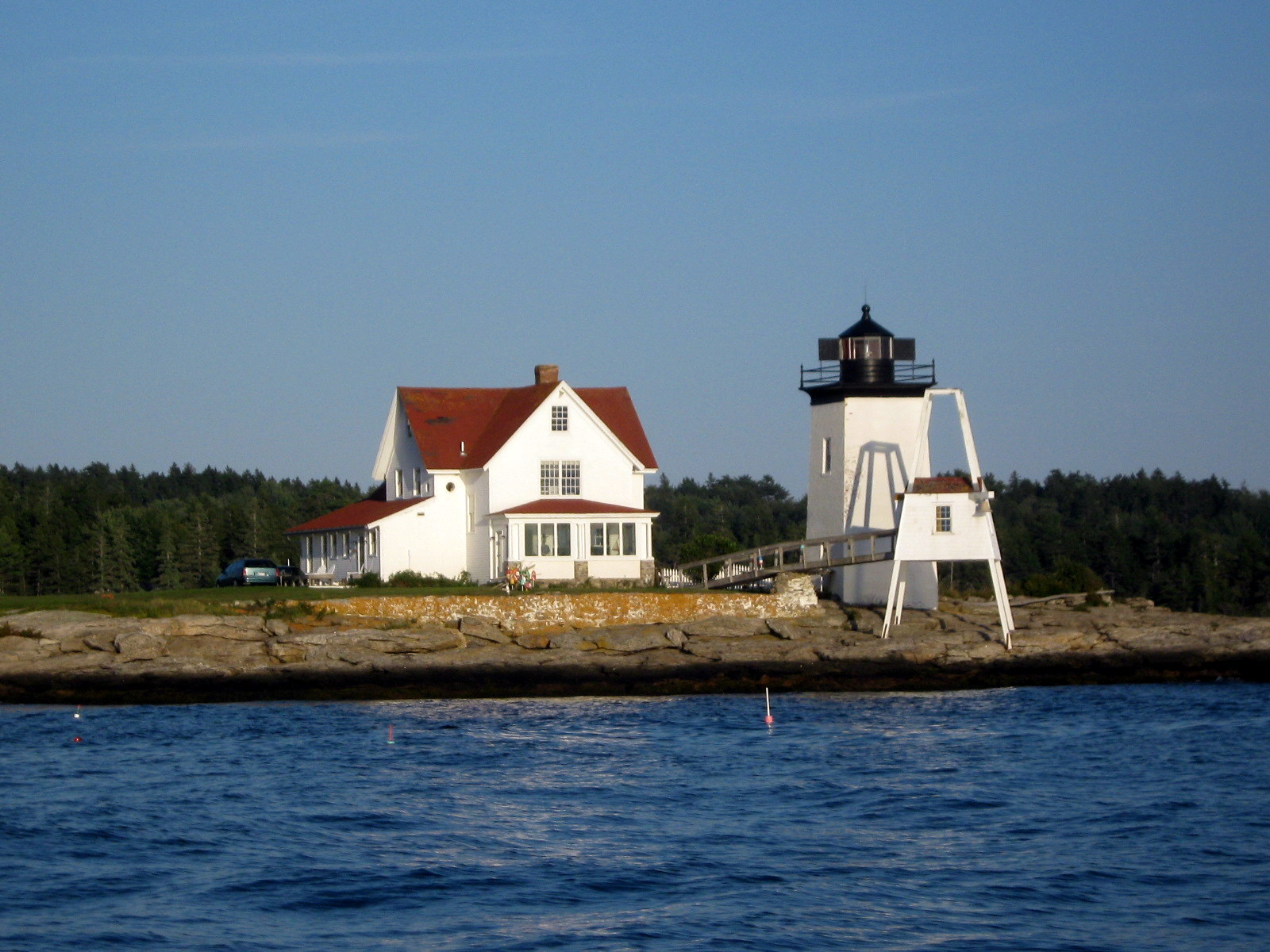 Hendricks Head Light in Southport, Maine, USA